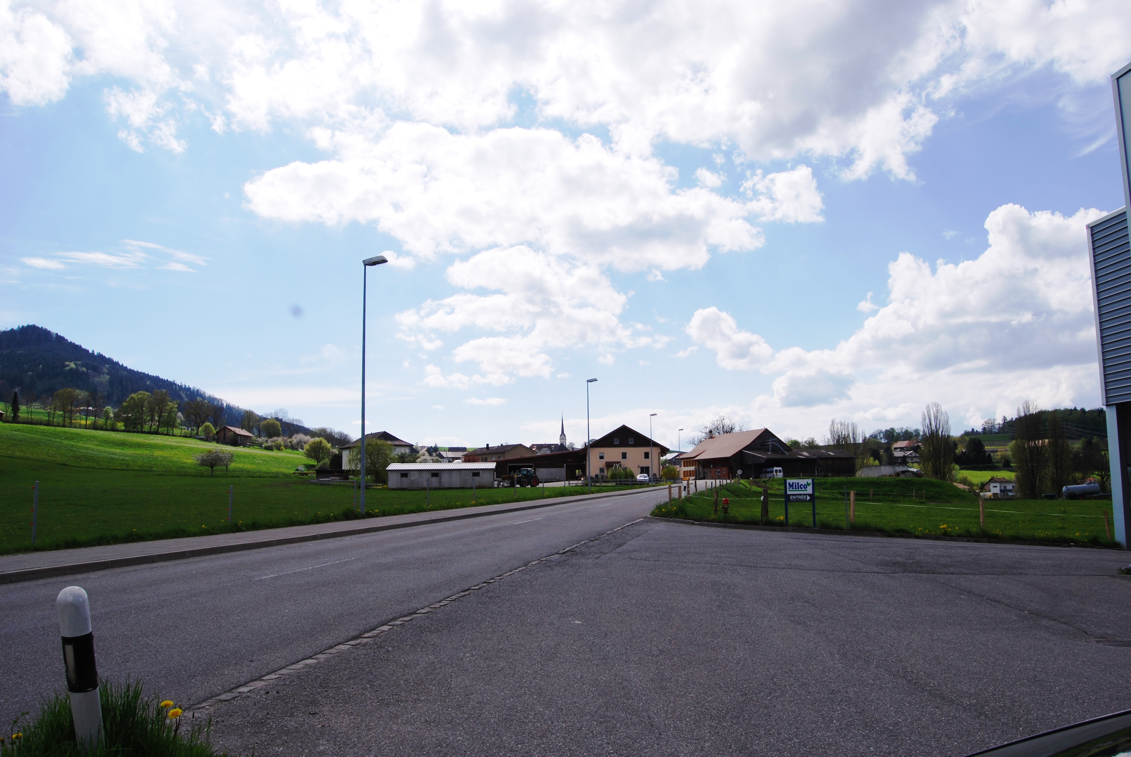 Vuisternens-en-Ogoz, canton of Fribourg, SwitzerlandEsperanto: Vuisternens-en-Ogoz, Kantono Friburgo, Svislando